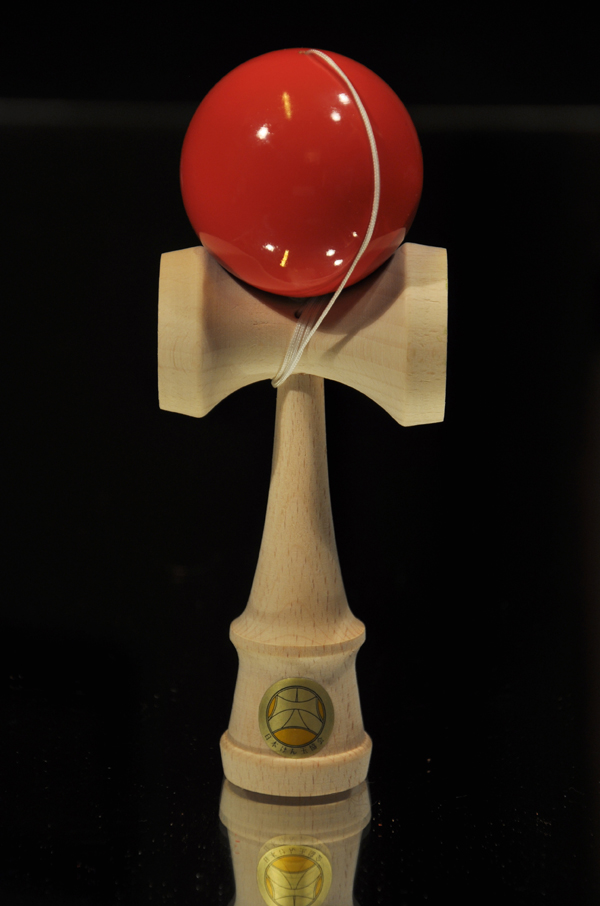 Picture of a red Ozora kendama. The green mark says that it is approved by The Japanese Kendama Association, which sets the standard for competition kendamas. This kendama is made by the Yamagata Koubou factory from the Yamagata prefecture in Japan.